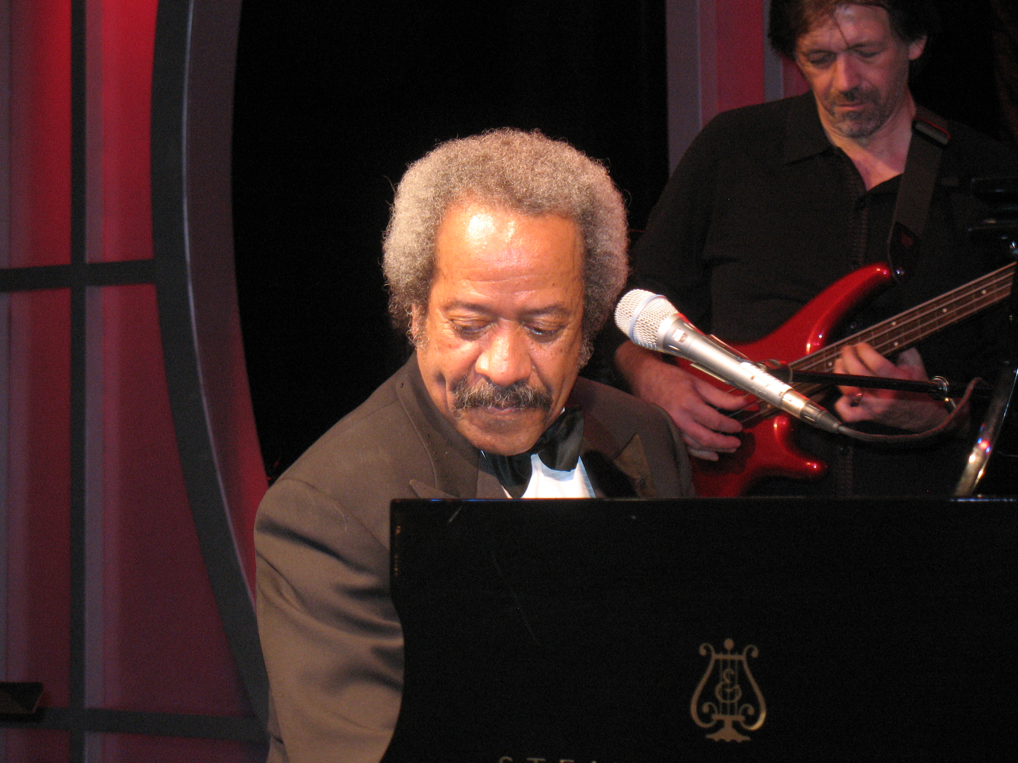 Allen Toussaint at the piano on stage at the Roosevelt Hotel, New Orleans